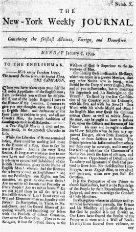 The New-York Weekly Journal; Date: 01-07-1733